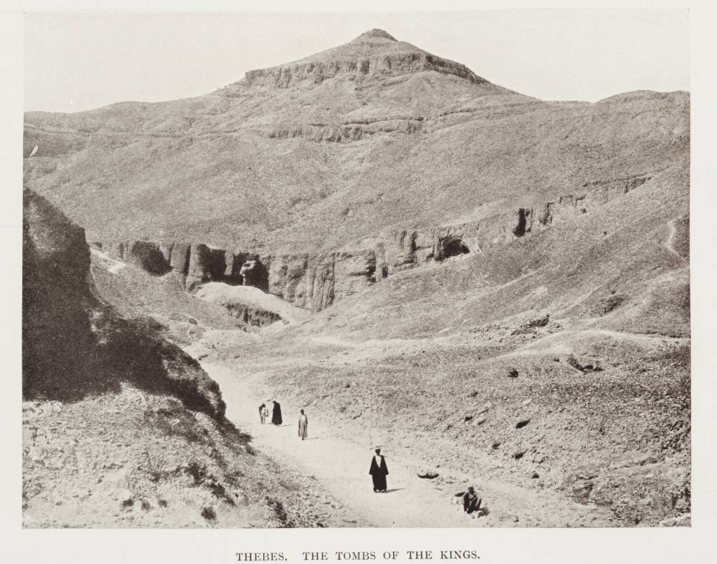 Several people walking down a dirt road in the hills around the Tomb of the Kings.